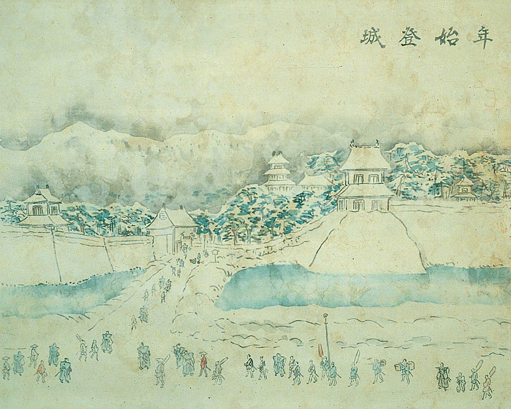 "Nagaoka jōka nenjū gyōji zue - Nenshi tōjō". Picture of annual event of the Nagaoka Castle - Going into the castle for New Year greeting. Collection of the Nagaoka City Central Library.